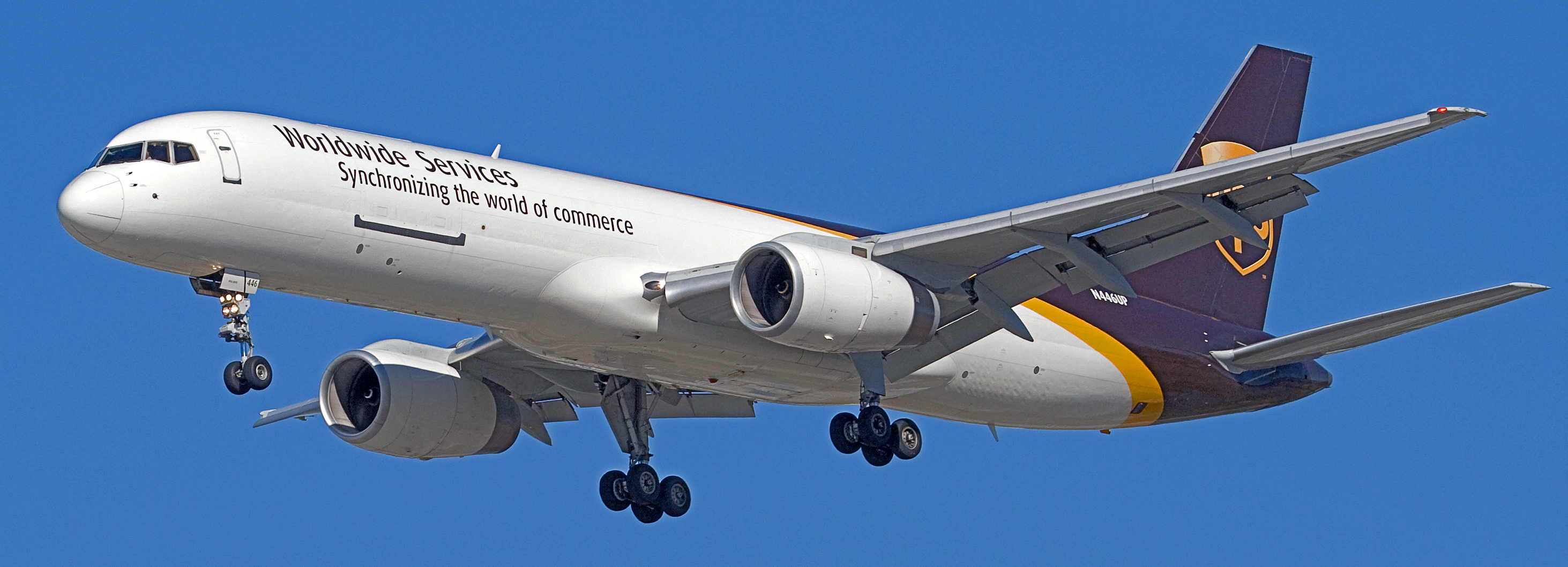 United Parcel Service 757-200PF